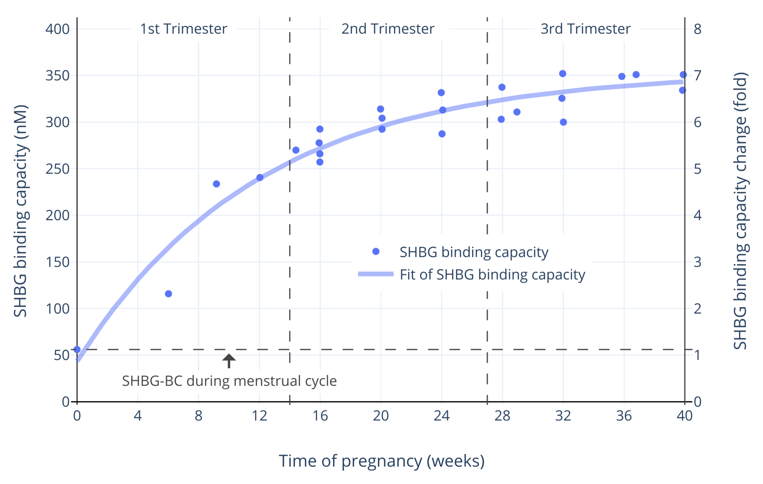 Sex hormone-binding globulin binding capacity (SHBG-BC) (nM) during pregnancy in women. Source of the values: (October 1977). "Study on the binding of dihydrotestosterone, testosterone and oestradiol with sex hormone binding globulin". Clin. Chim. Acta 80 (1): 171–80. PMID 561671.